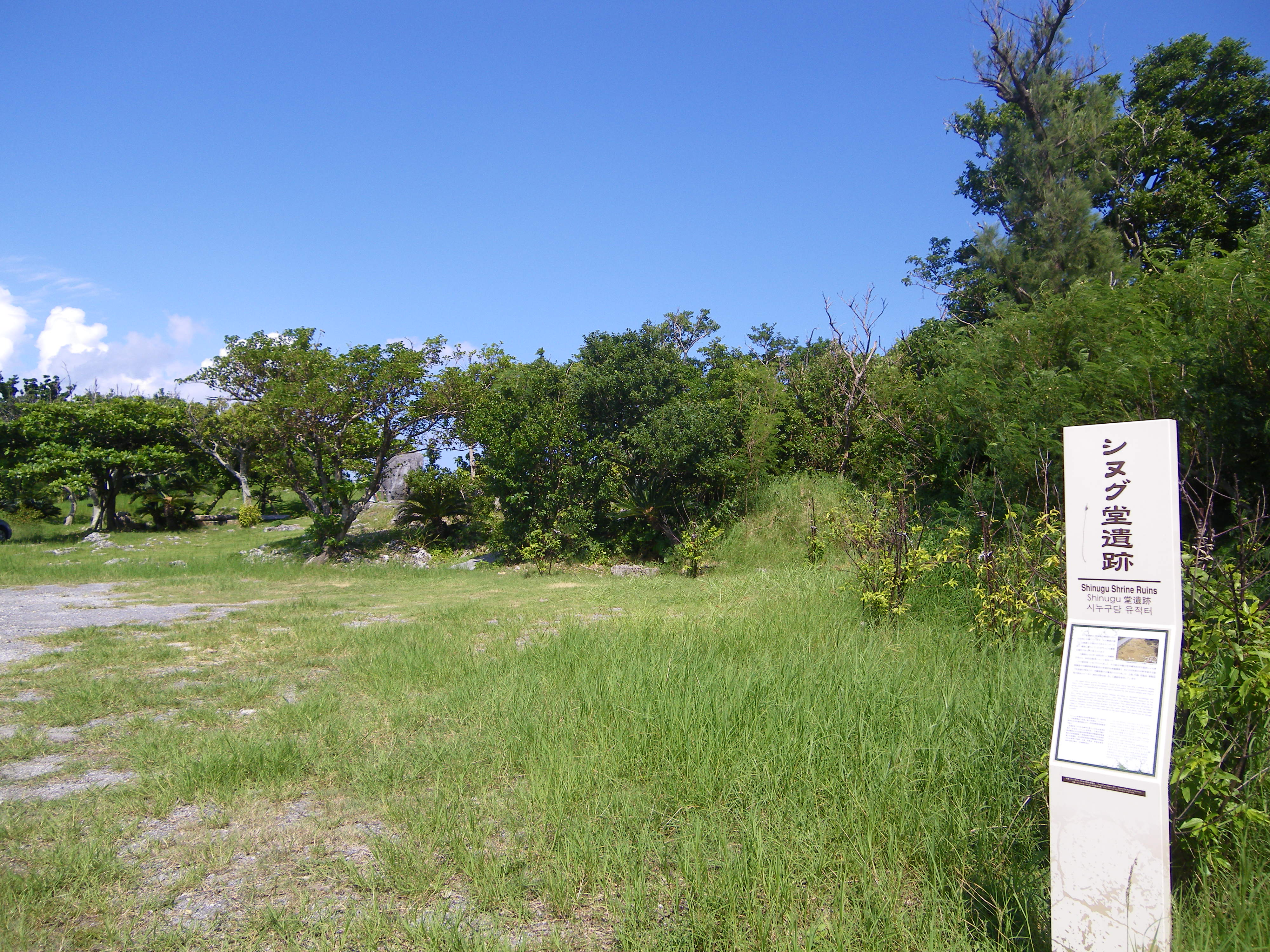 Shinugu Shrine Ruins